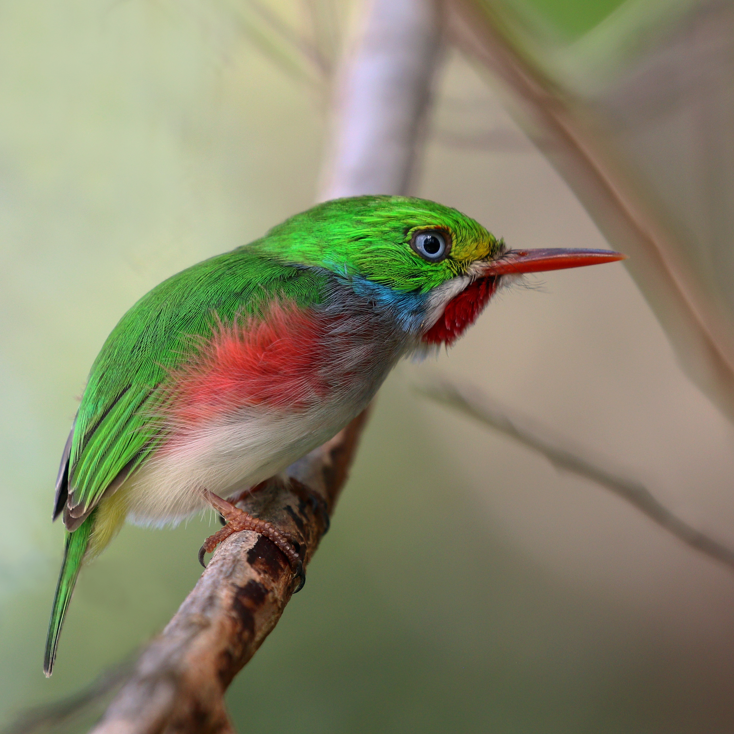 Cuban tody (Todus multicolor), Cayo Guillermo, Cuba